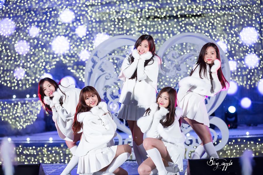 160214 April Everland Romantic Concert